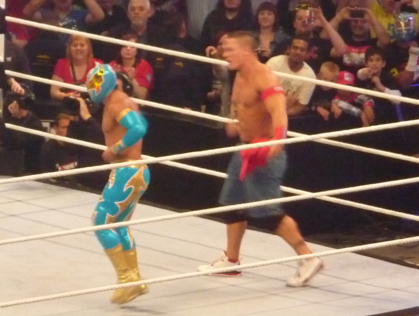 John Cena (right) and Sin Cara (left) at the WWE Raw tapings on April 18, 2011, in London, England, at the O2 Arena